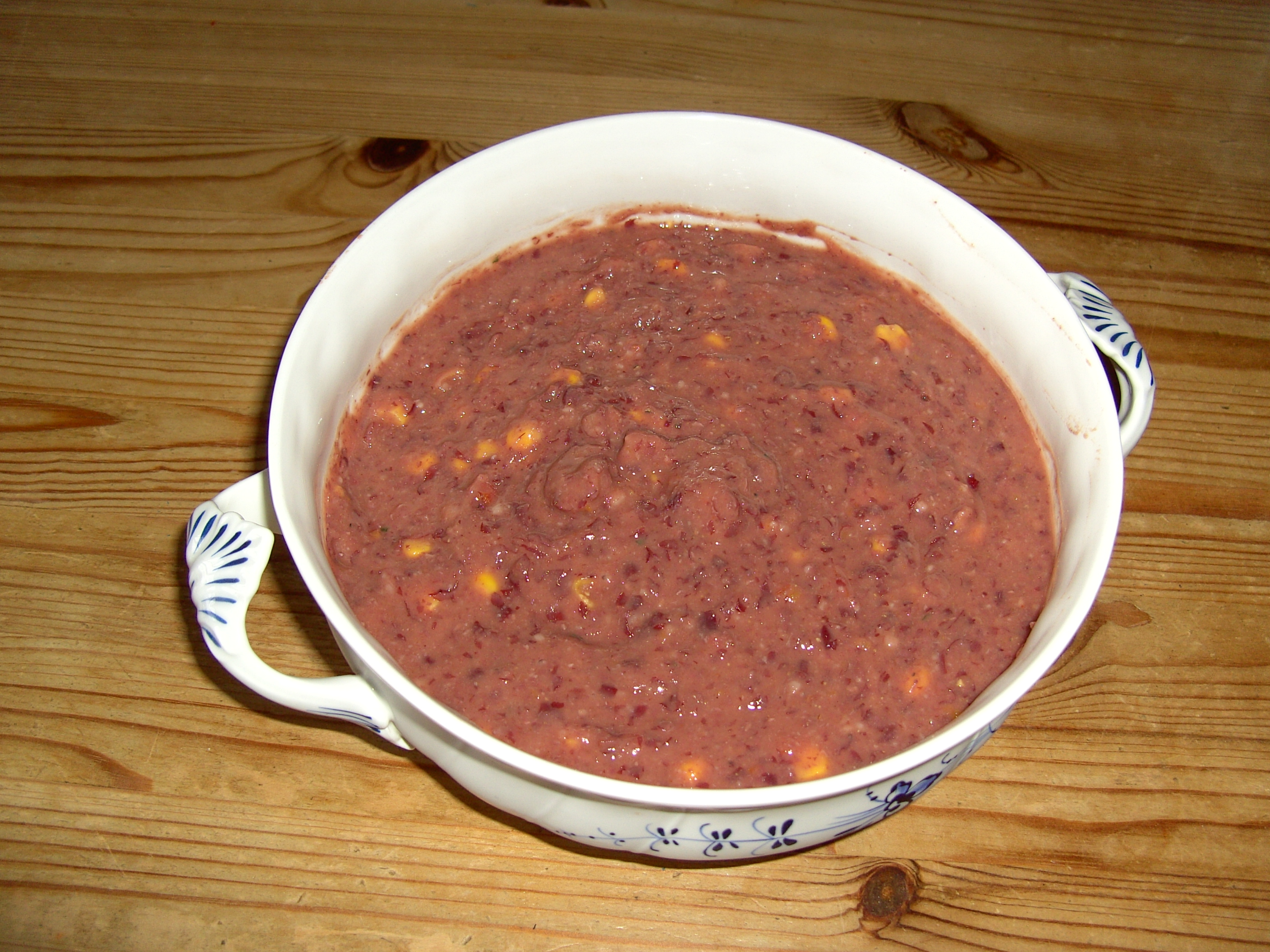 A bowl of mashed beans with corn added.